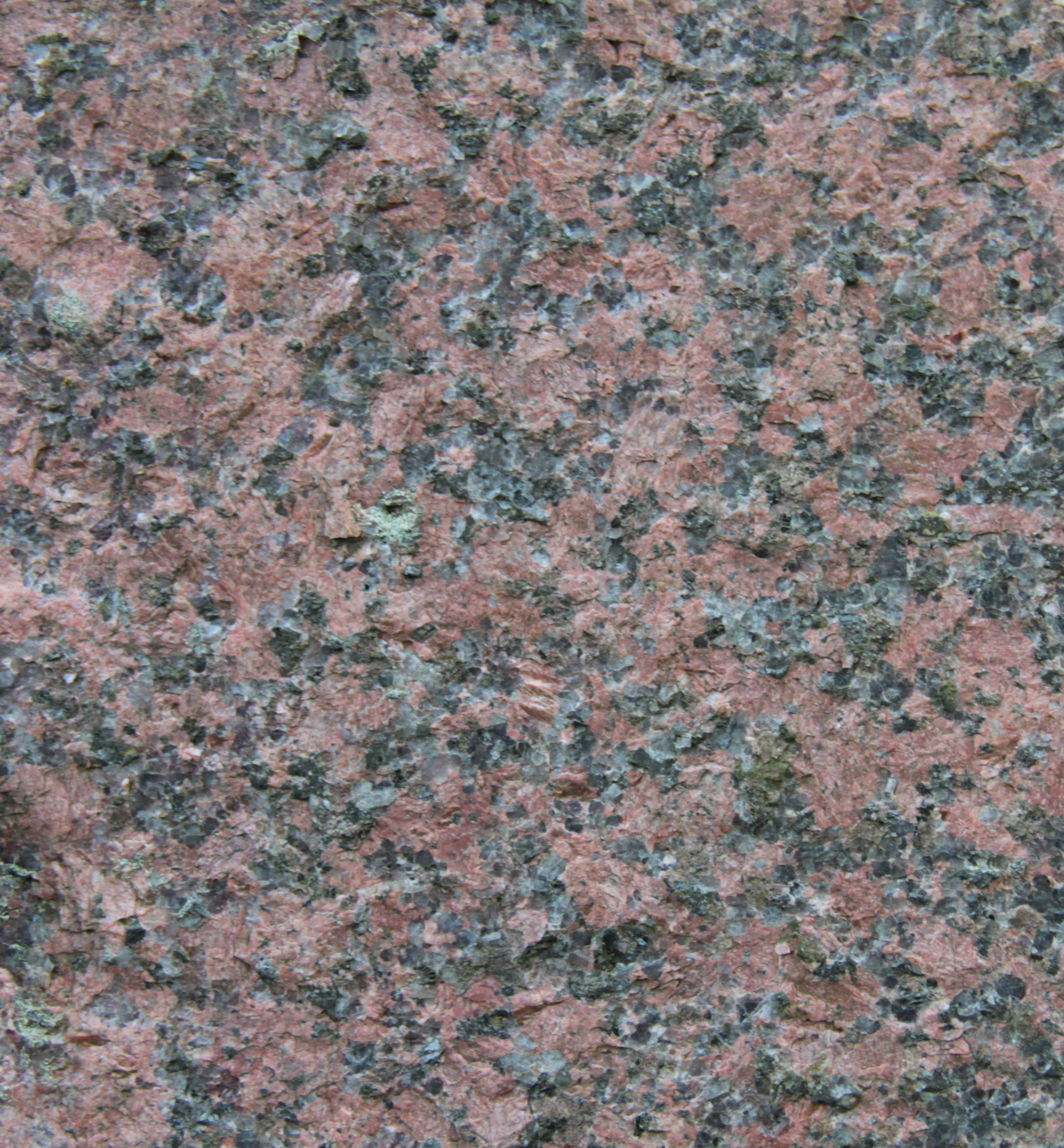 Balmoral Course Grained